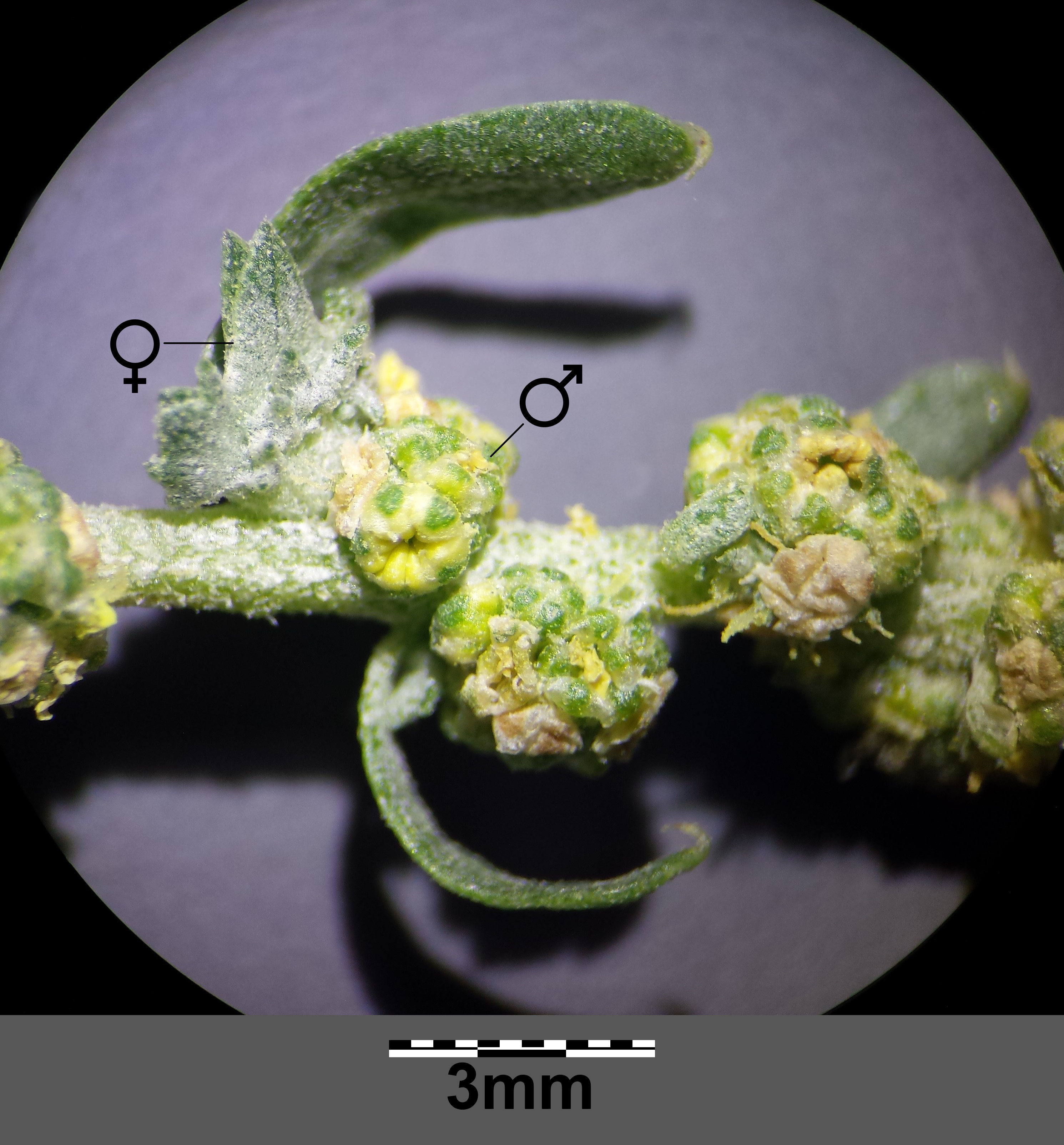 Inflorescence with female and male flowers Taxonym: Atriplex tatarica ss Fischer et al. EfÖLS 2008 ISBN 978-3-85474-187-9 Location: Sinawastingasse, Vienna-Floridsdorf - ca. 160 m a.s.l. Habitat: dry, ruderal slope